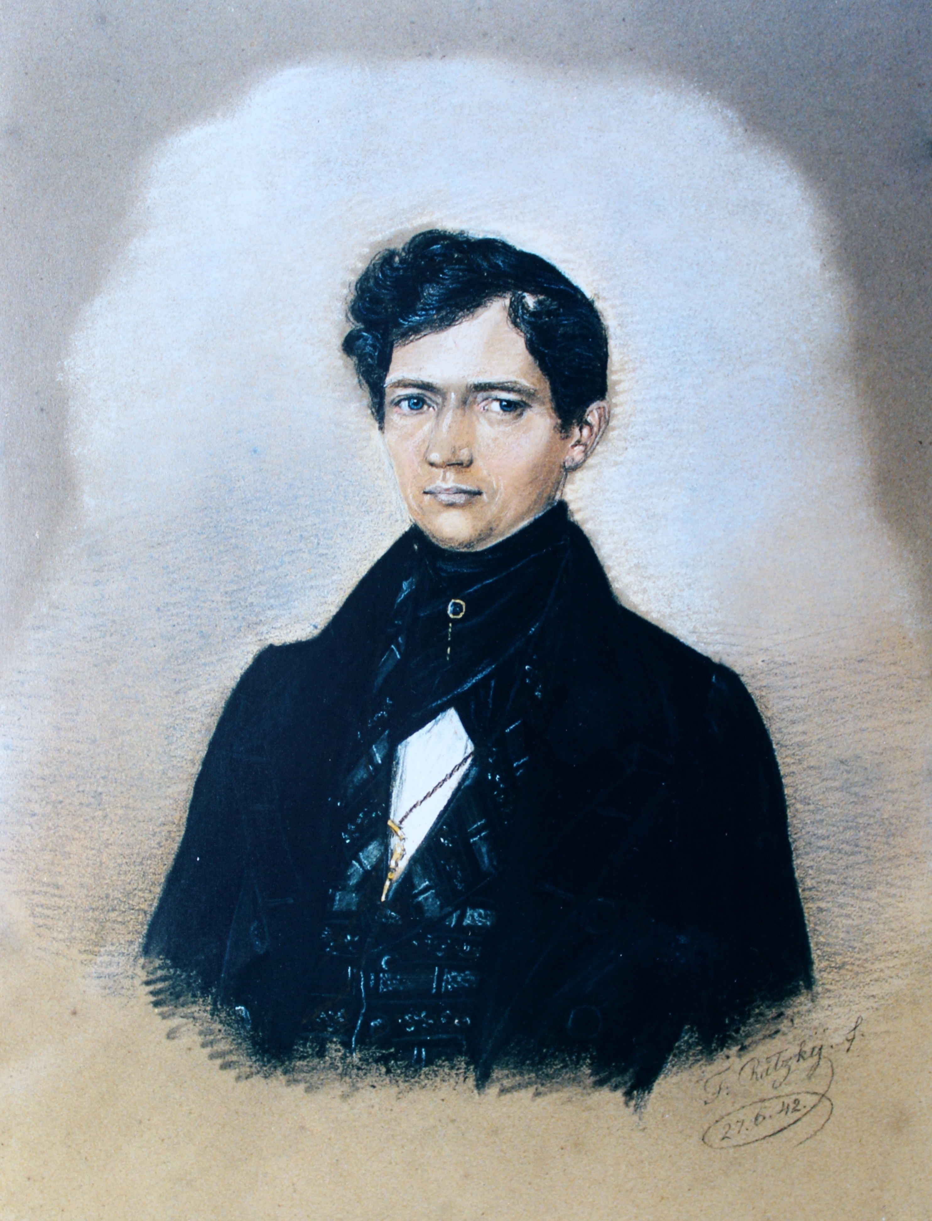 portrait of Carl Ehrich honorary citizen of Plau am See by F. Rätzky in 1842